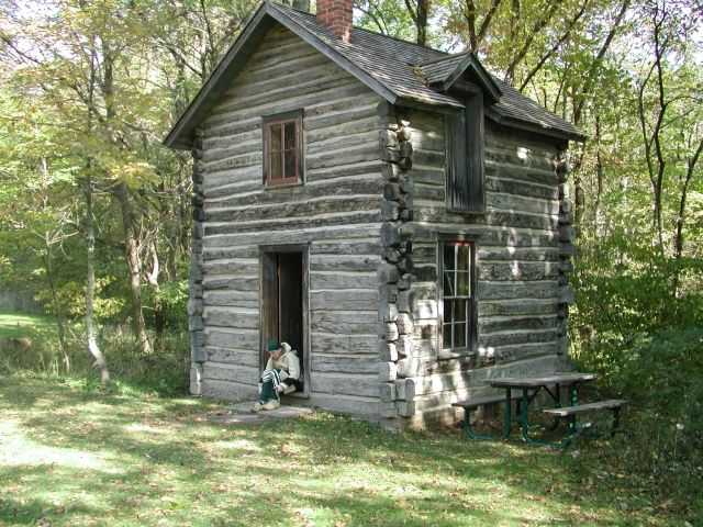 Bailly Chapel at the Bailly Homestead, Indiana Dunes National Lakeshore